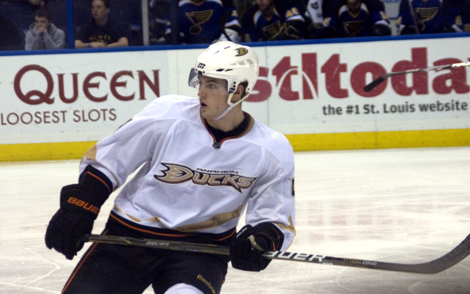 Cam Fowler, American-Canadian ice hockey player